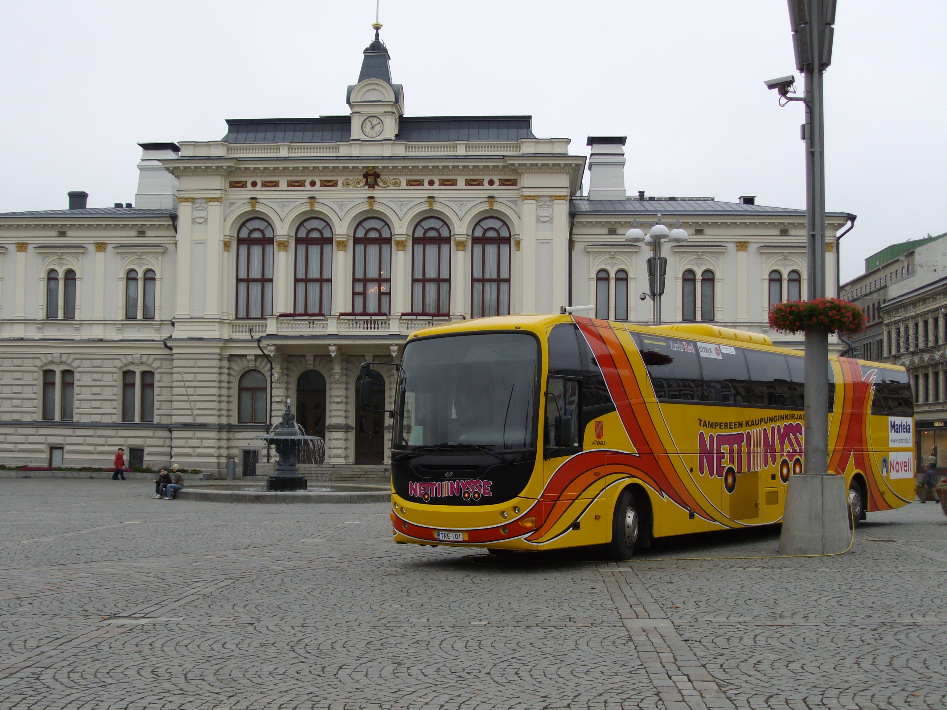 Netti-Nysse in front of old Tampere city hall. Volvo B12M / Lahti Eagle